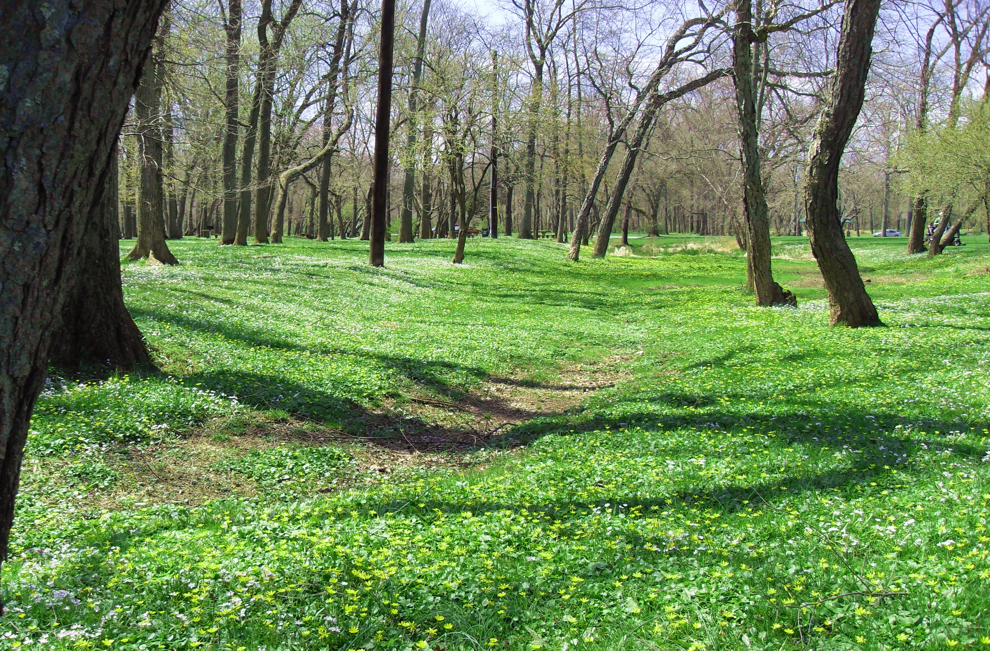 Spring in Duke Island Park; the yellow flowers are Lesser Celandines